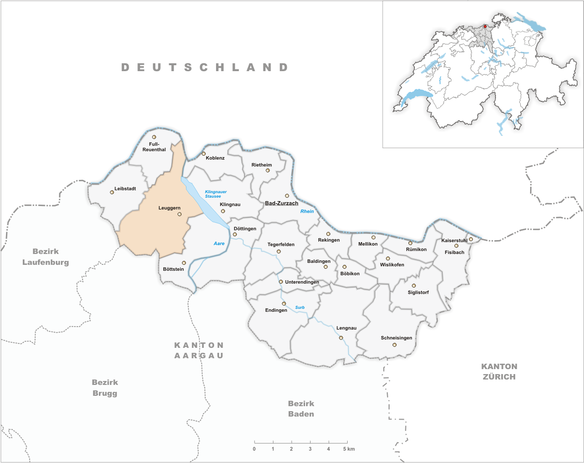 Municipality Leuggern